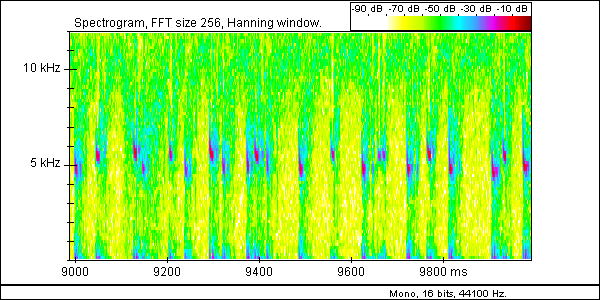 spectrogram of frequency division recording with two Pipistrelle bats